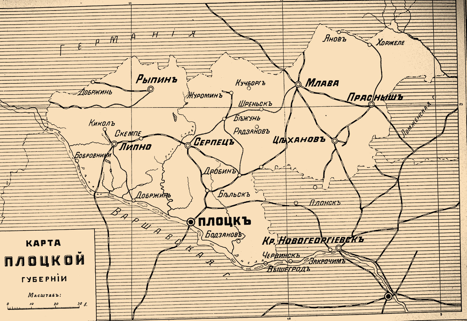 Illustration from Brockhaus and Efron Jewish Encyclopedia (1906—1913)